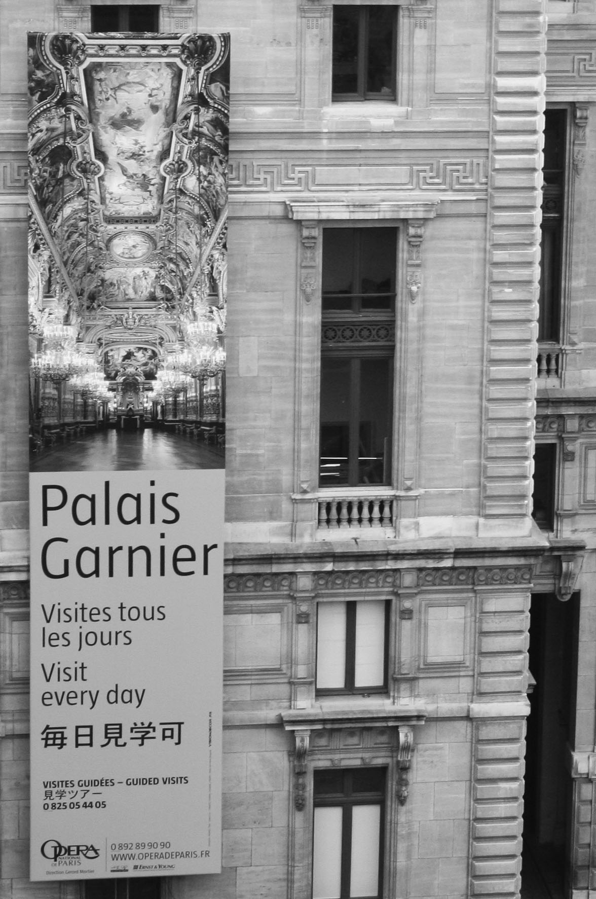 Palais Garnier (detail from the front of the monument), Paris